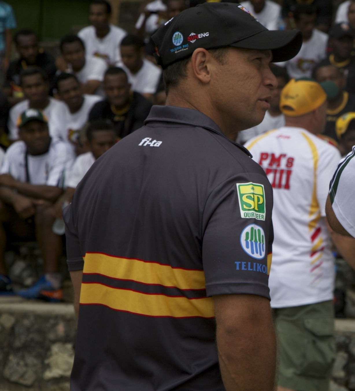 PM’s 13 Coaching Clinics: This year’s Prime Minister’s 13 again saw the Kangaroos and Kumuls promoting positive change in PNG communities. Some of their messages included stopping violence against women, living health and staying in school. Pictured are Kumuls and Kangaroos Coaches, Adrian Lam and Mal Meninga just before a pep talk and a coaching clinic for school boy rugby. Photo: AusAID